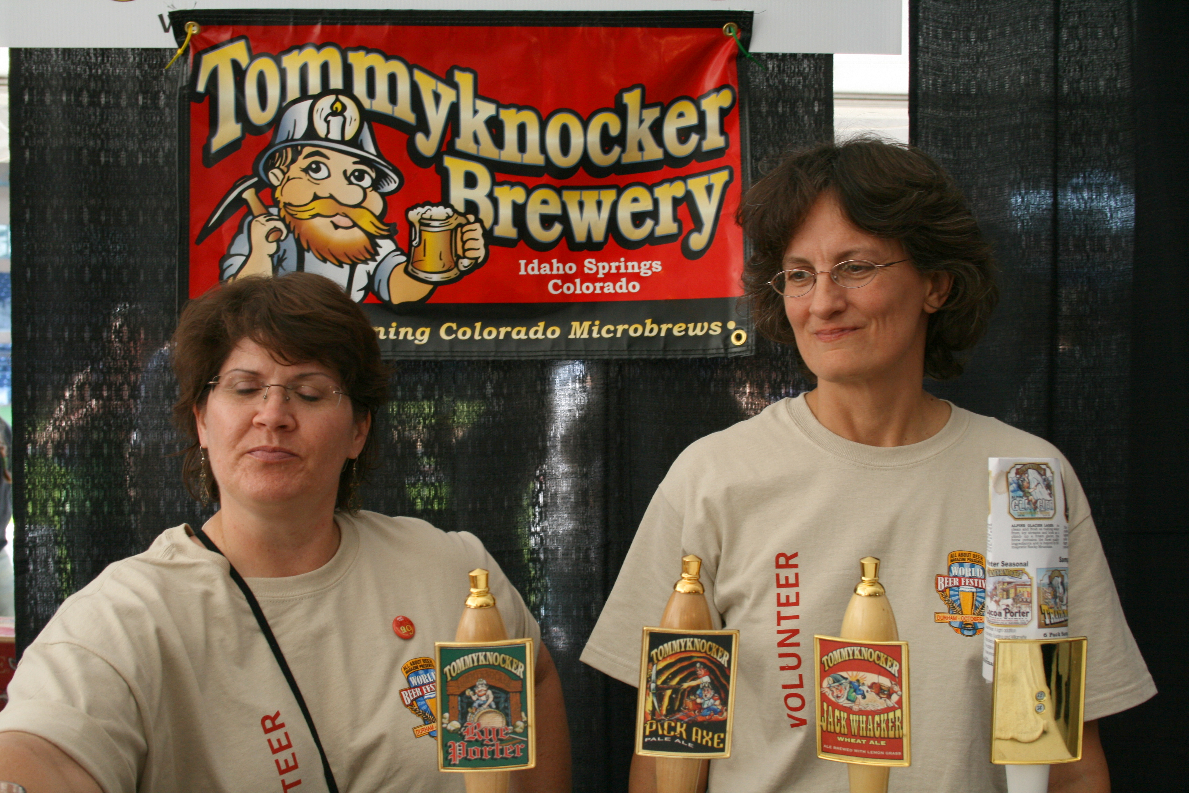 Two ladies manning the Tommyknocker Brewery booth at the 13th Annual World Beer Festival held at the Durham Bulls Athletic Park in Durham, North Carolina.